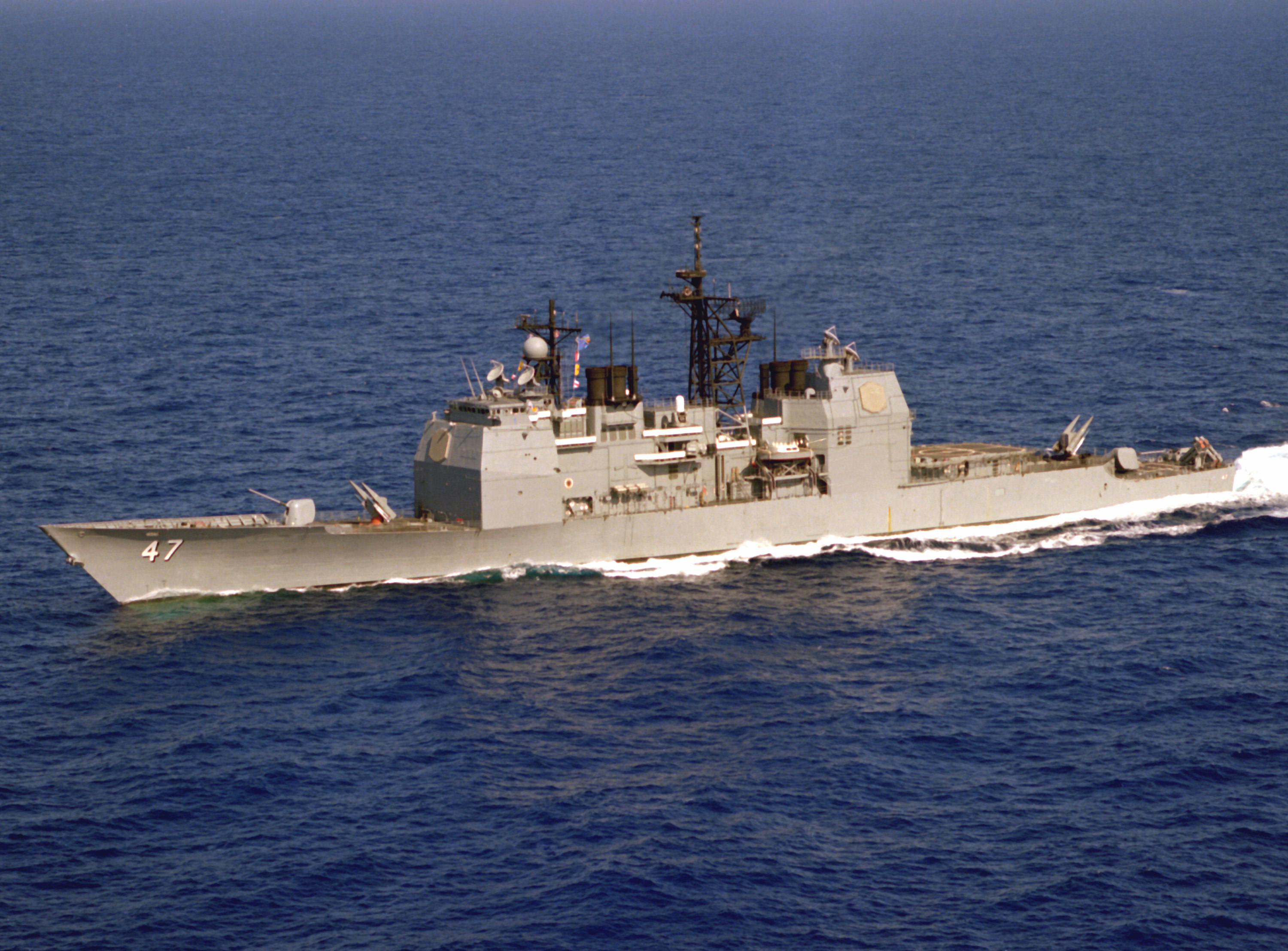 An aerial port bow view of the U.S. Navy guided missile cruiser USS Ticonderoga (CG-47) underway during Standard II missile tests near the Atlantic Fleet Weapons Training Facility, Roosevelt Roads, Puerto Rico (USA), on 9 April 1983.